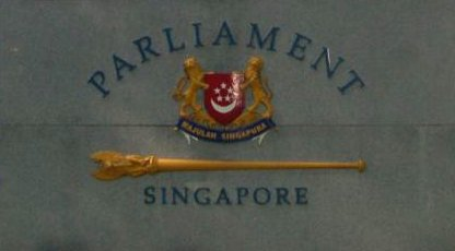 A granite sign in front of Parliament House, Singapore, with the coat of arms of Singapore and a representation of the Mace of Parliament.